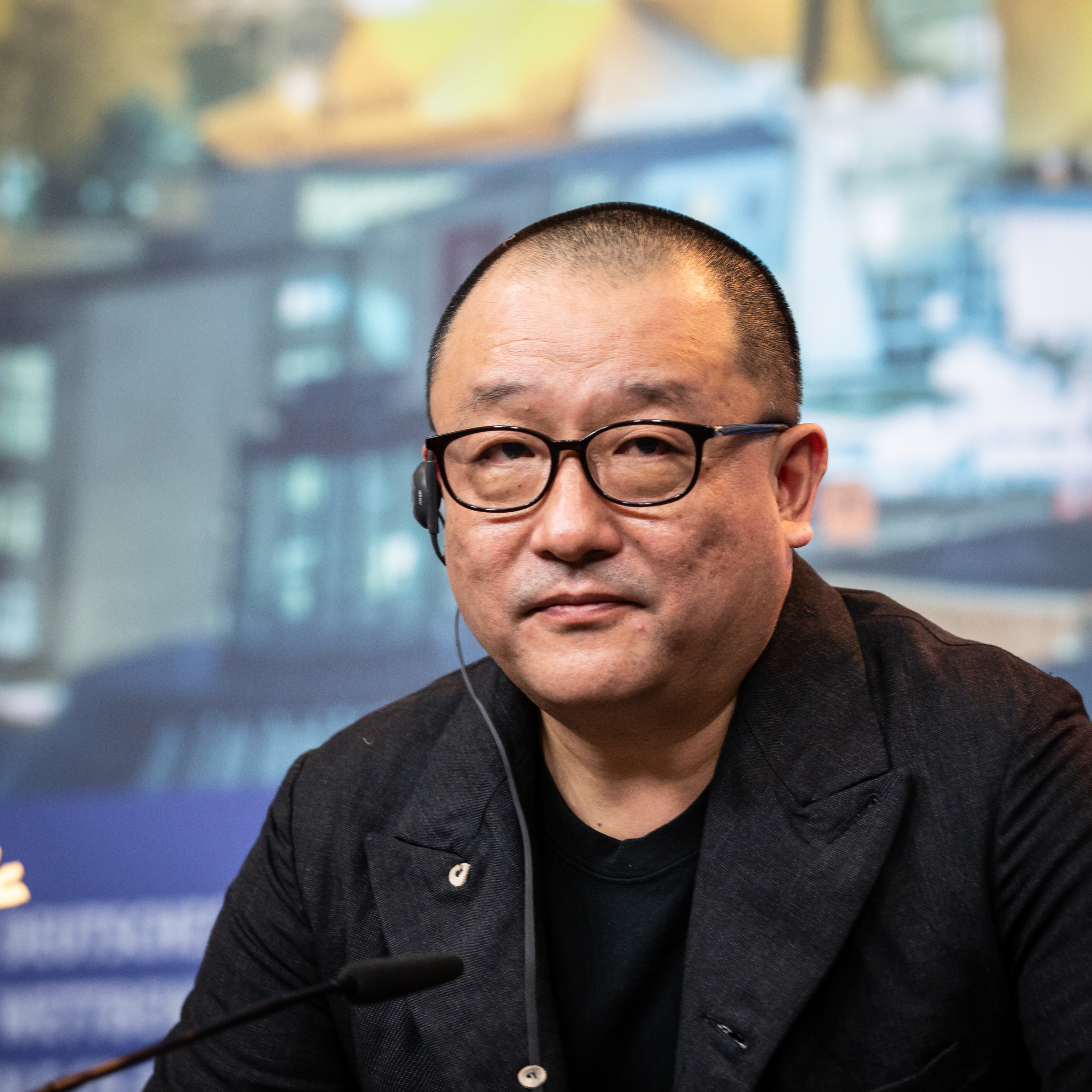 Film director Wang Xiaoshuai at the Berlinale 2019